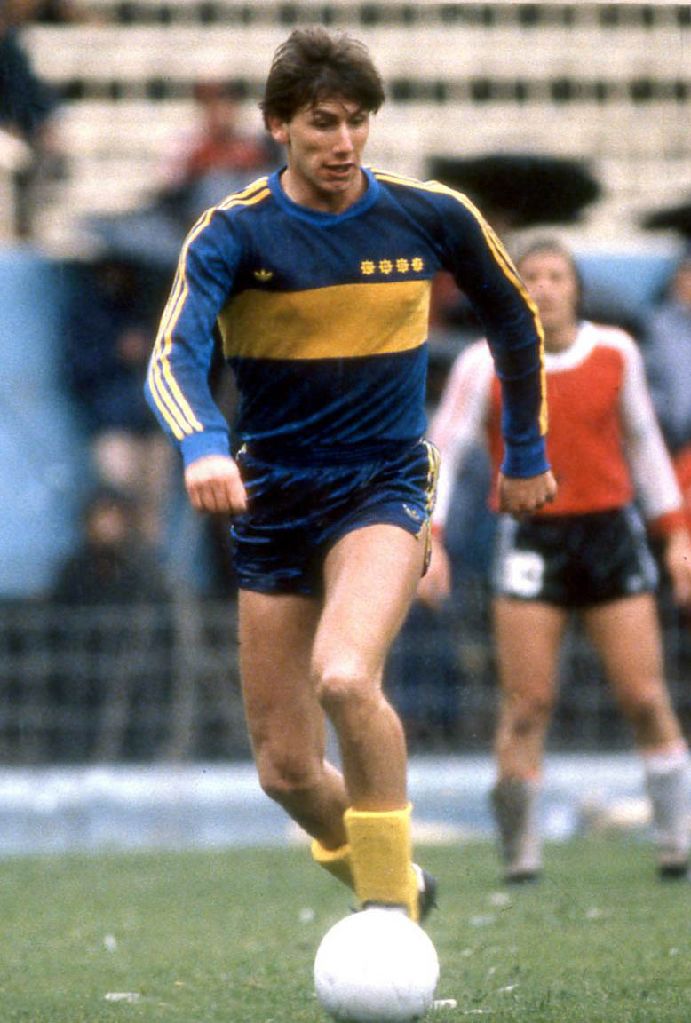 Argentine forward Ricardo Gareca while playing for Boca Juniors